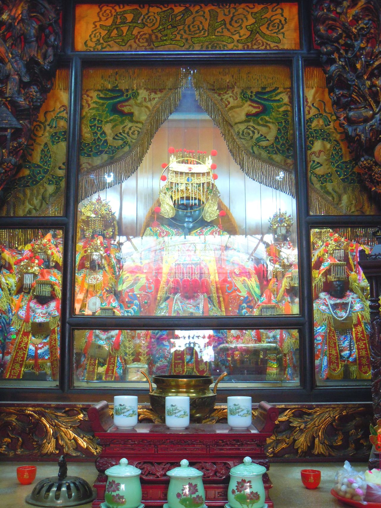 中文(繁體):大庄浩天宮：位於臺中市梧棲區中央路一段784號。